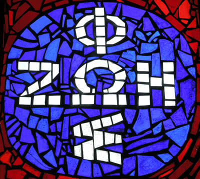 Stained-glass window with PHOS-ZOE monogram ("Light" φως and "Life" ζωη in Greek), symbol of the Light-Life movement in Christos Servant chapel in Krościenko nad Dunajcem (center of the movement)